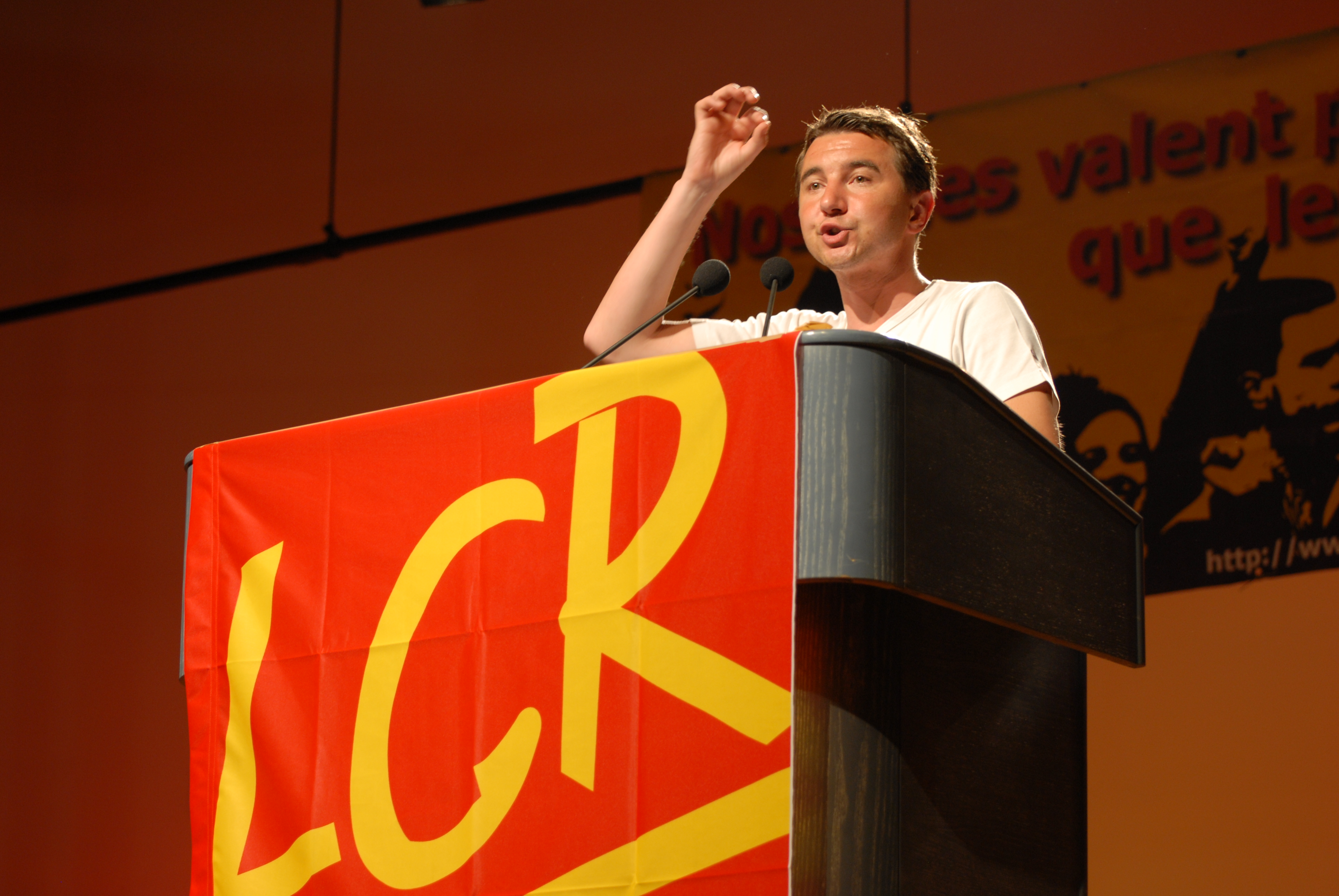 Olivier Besancenot during his meeting in Toulouse on April, 20th 2007 for the 2007 presidential election.